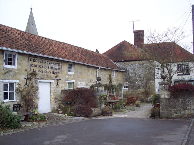 Coaching Inn Formerly The Grosvenor, now The Angel.